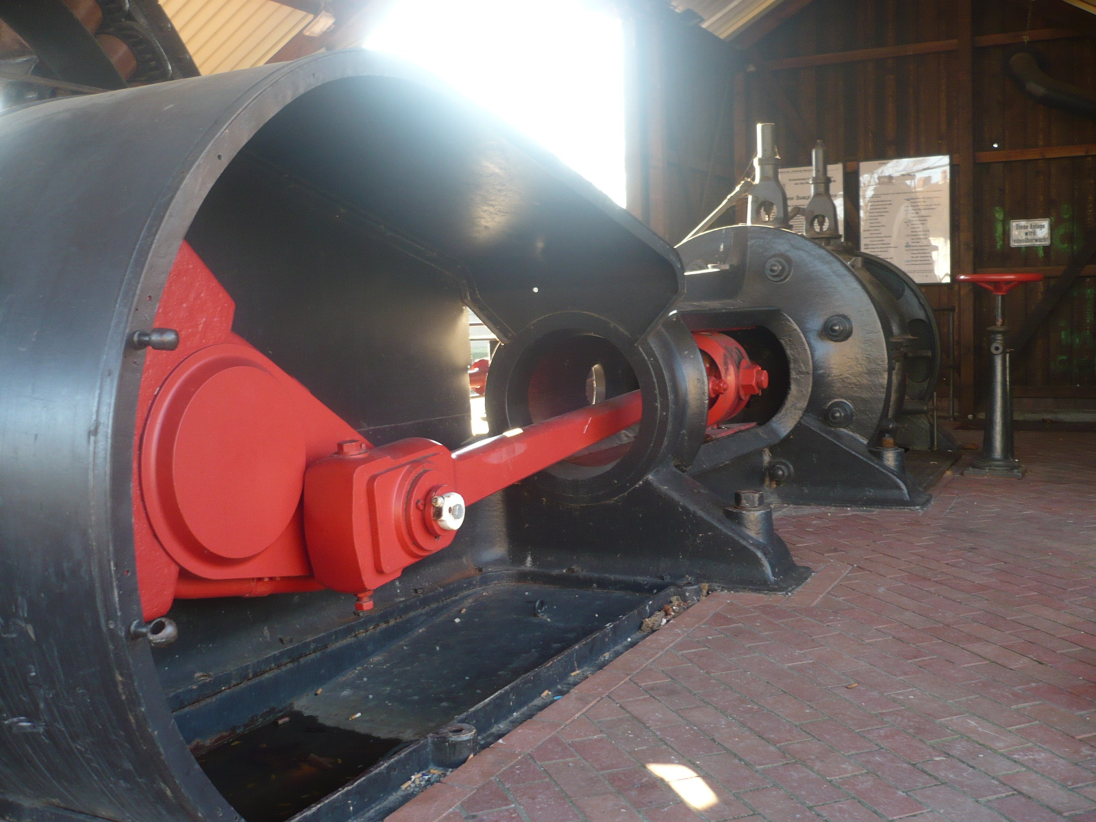 Steam engine with generator in Melle, Germany